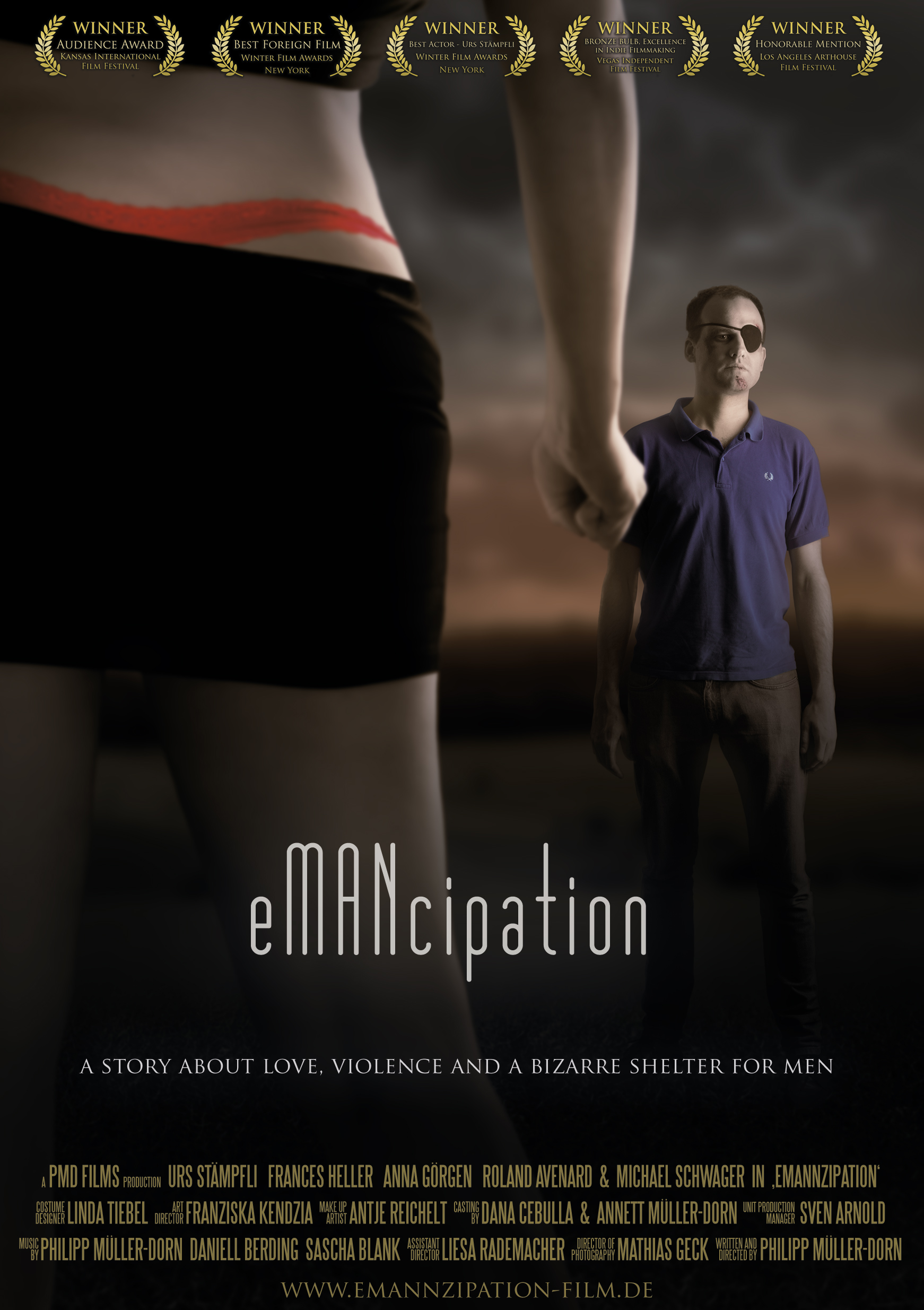 Filmposter of the 2011 independent drama feature film eMANcipation directed by Philipp Müller-Dorn